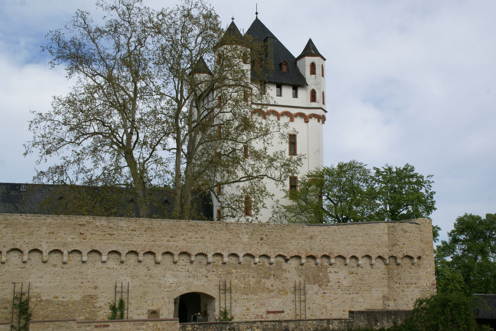 Castle (Burg) in Eltville, Hessen, Germany